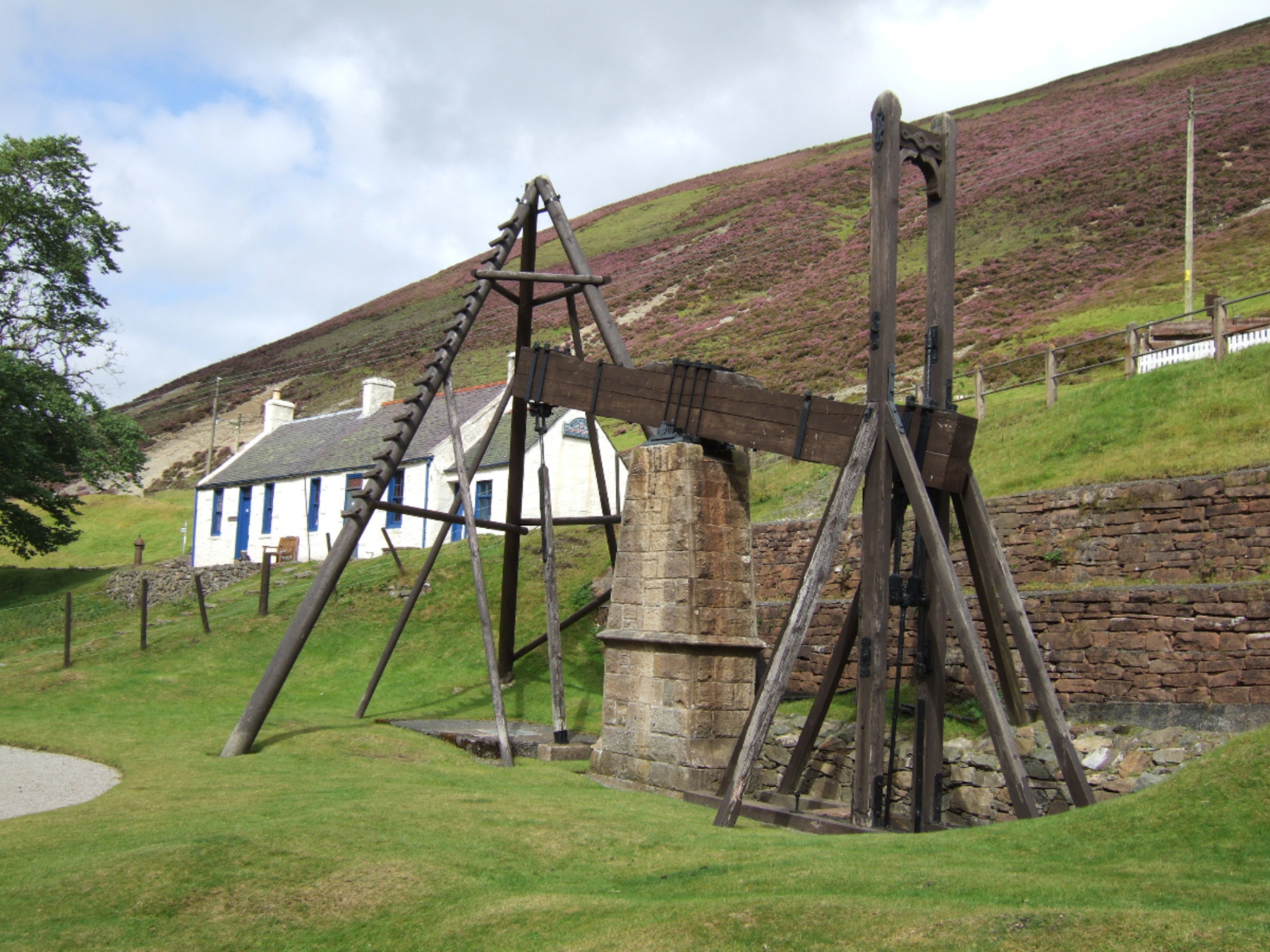 Wanlockhead Village. The Hydraulic pumping engine used to pump water from the lead mines. 29th August 2005 Photographer - A.M.Hurrell Camera - Fuji FinePix F10 Modified - File size reduced using FinePix Software